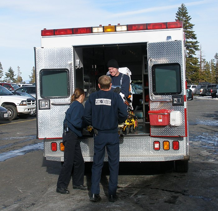 Émergency medical technicians of the North Lake Tahoe Fire District are loading a patient into an ambulance for transport to a hospital. The patient is being evacuated from the First Aid building at the Mount Rose Ski Area on Nevada State Route 431 between the cities of Incline Village and Reno.